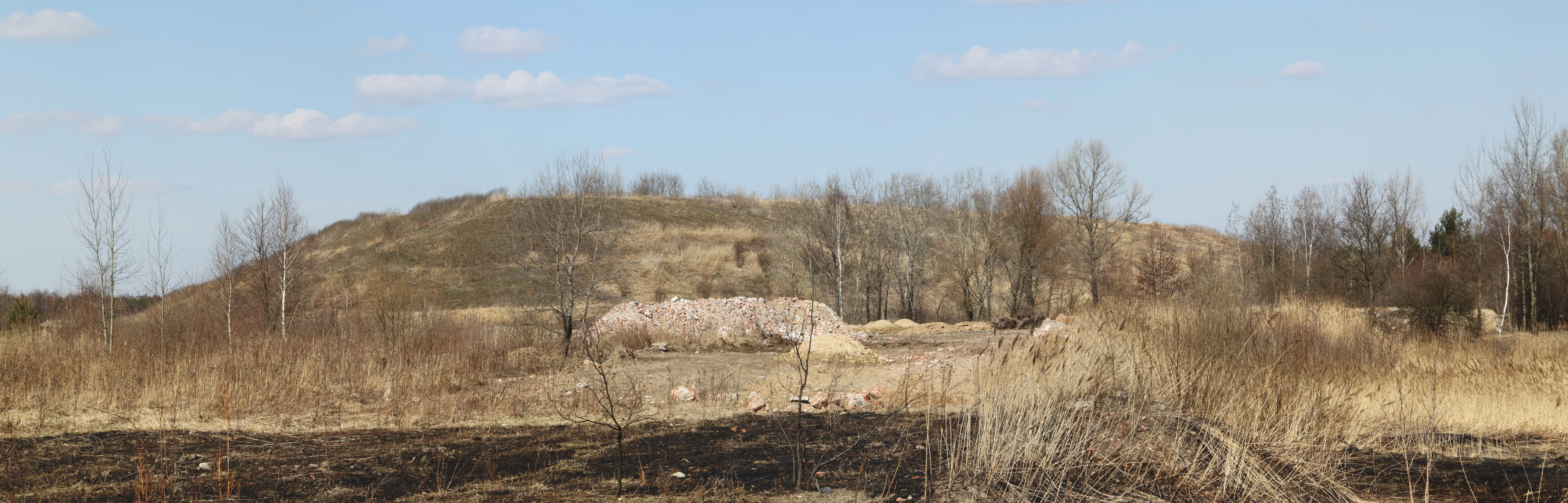 Panoramical view of Zwałka (formerly landfill) in Marki, Poland.